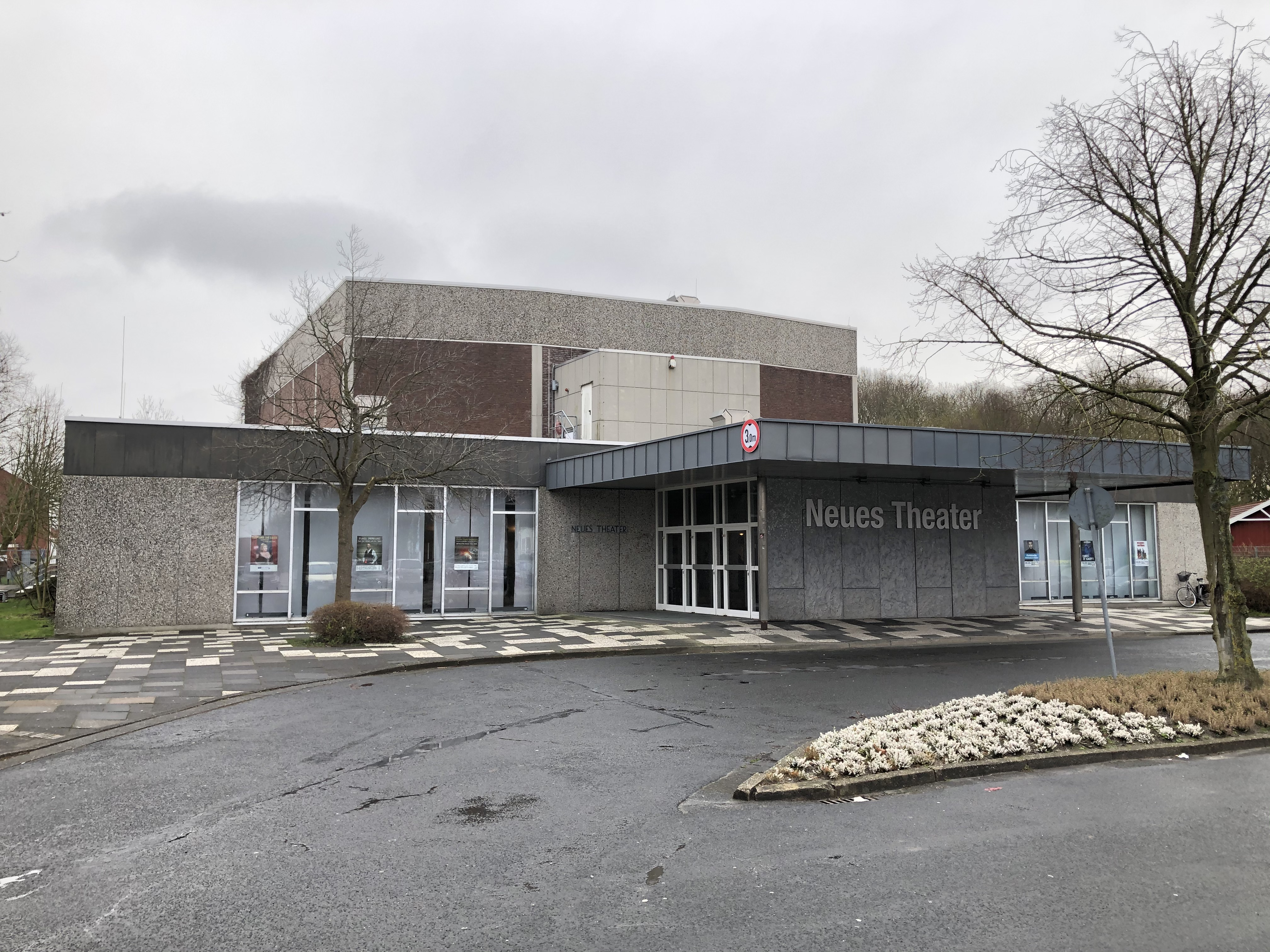 Neues Theater in Emden